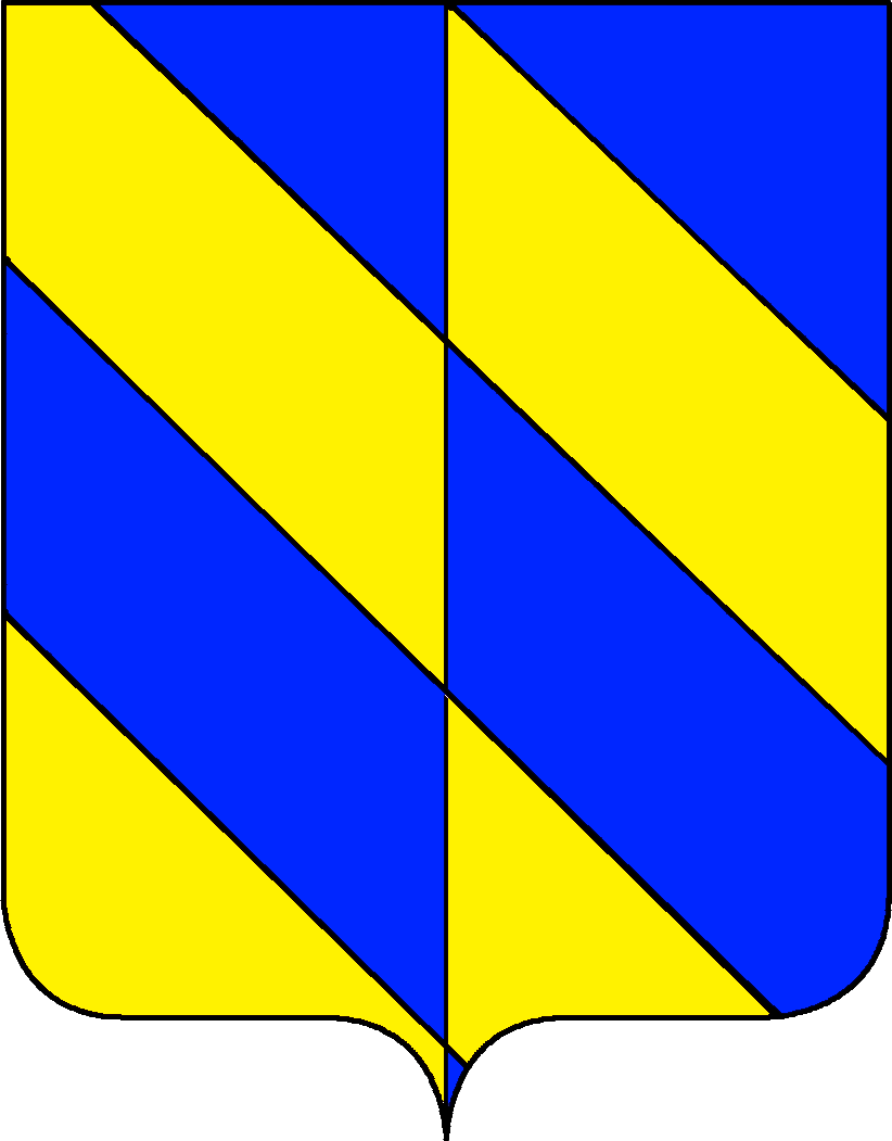 Baffo Family coat of arms